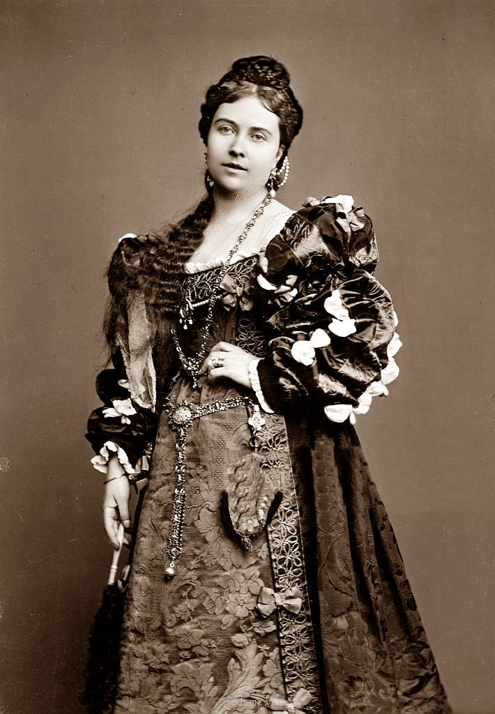 Victoria, Princess Royal, 1875